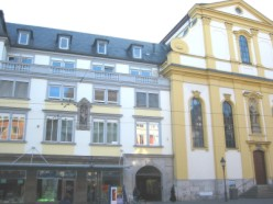 Building of the Center of Augustine research in Würzburg, Germany